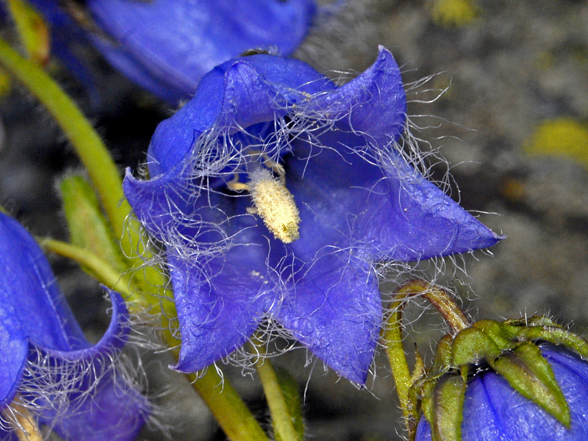 Campanula barbata at the Giardino Botanico Alpino Chanousia